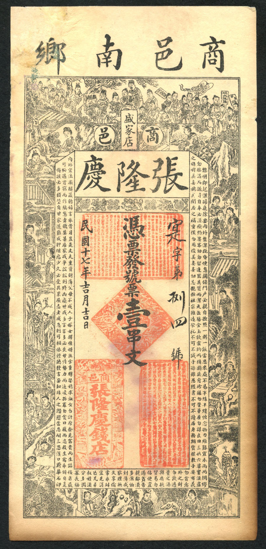 A banknote issued by the Zhang Long Qing denominated in "Strings of Cash Coins" (Chuàn wén).